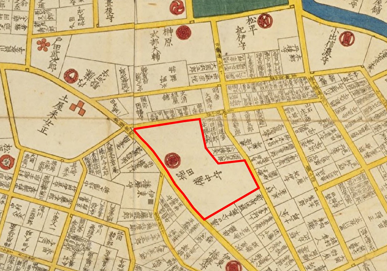 A residence of Hotta clan at Edo